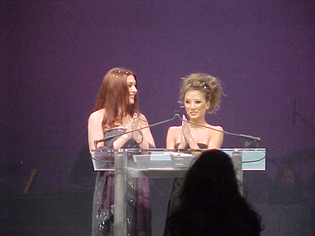 At CES January 6-9, 2000